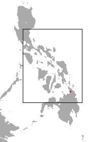 Large Mindanao Roundleaf Bat (Hipposideros coronatus) range